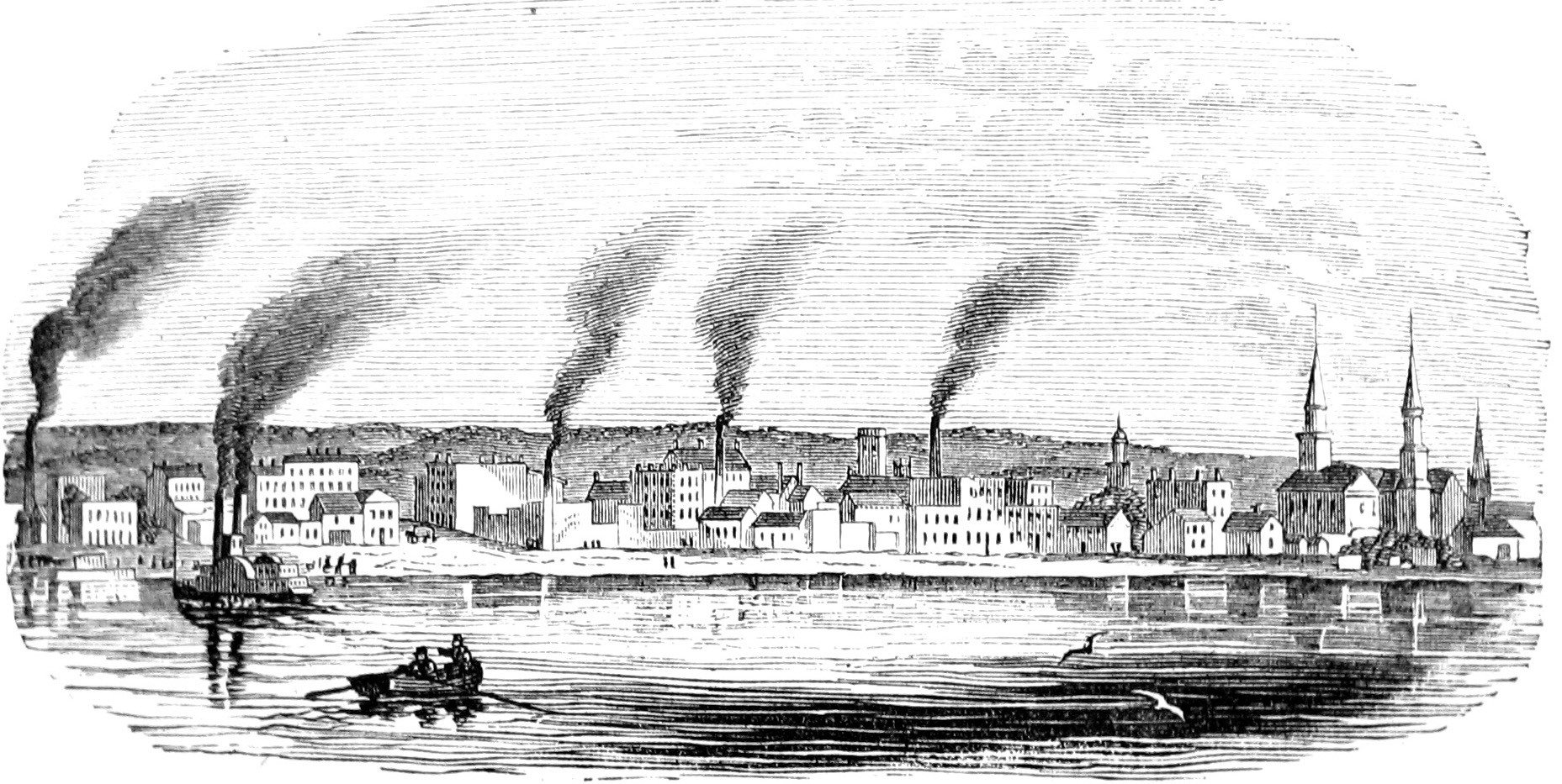 Rock Island